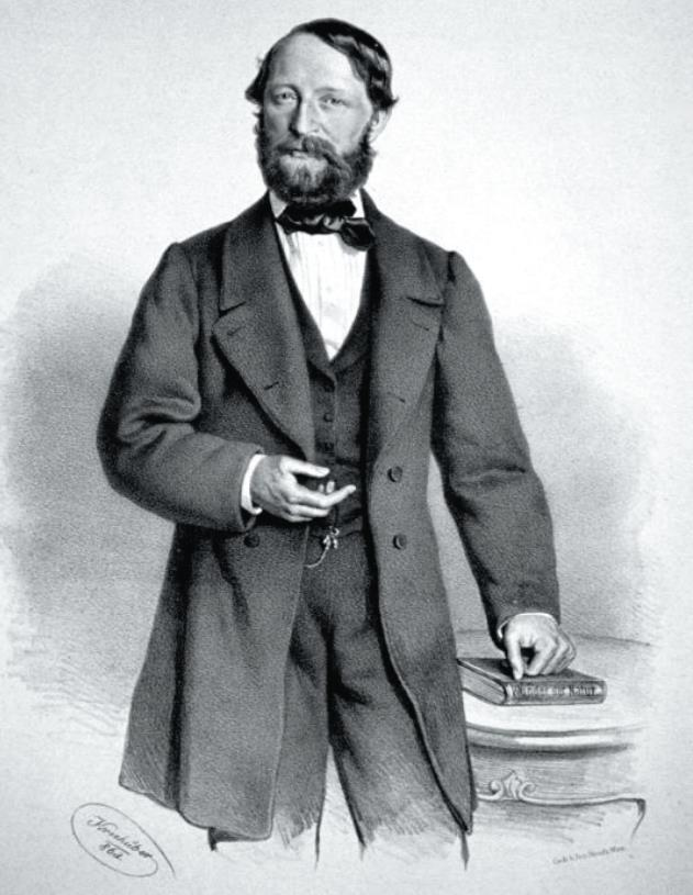 portrait published in the POlish site about famous personalities of the town of Brody, the portrait can be find also in books about the history of Romanian Jews and about the history of Romanian medicine